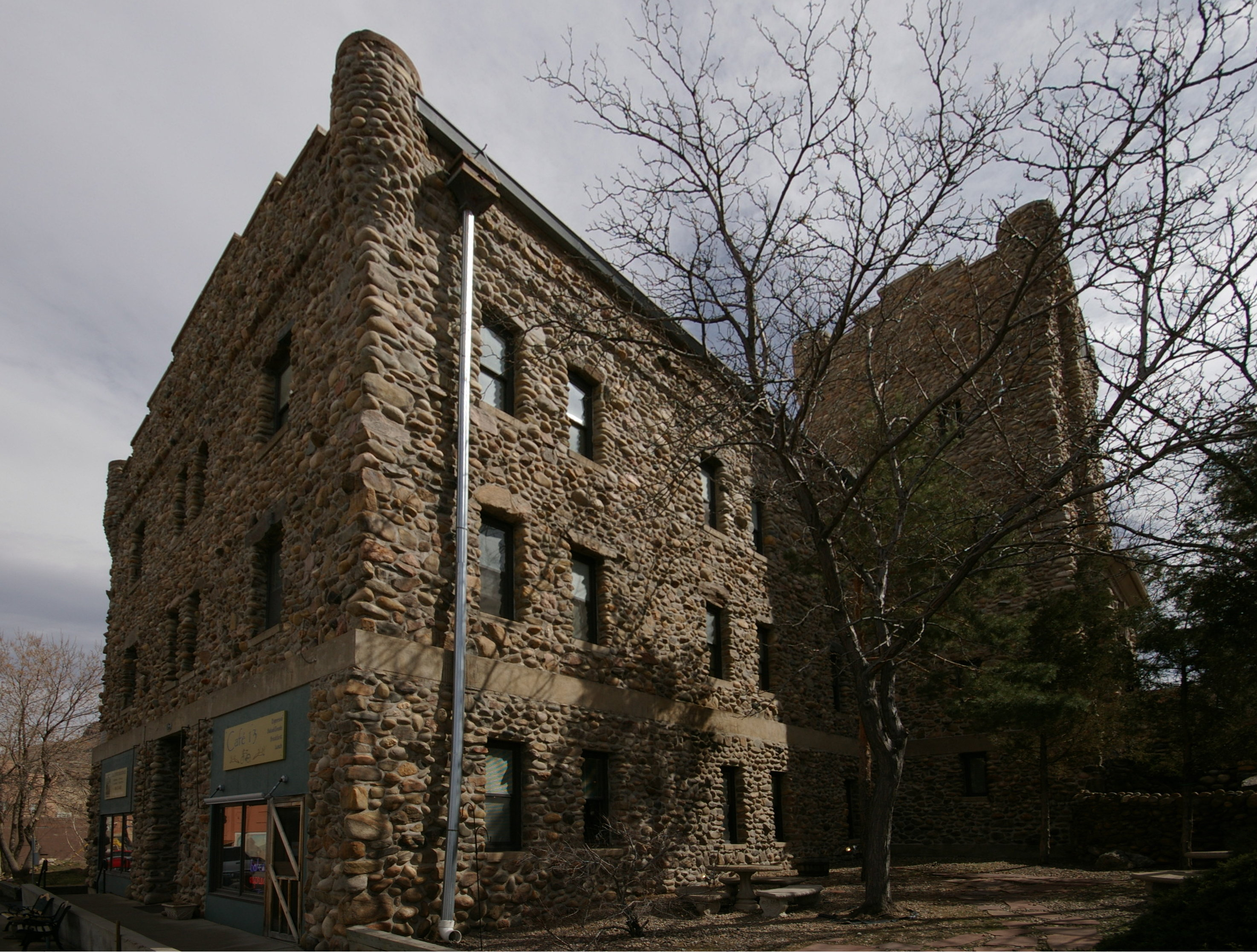 The Colorado National Guard armory building in Golden, CO, from the corner.